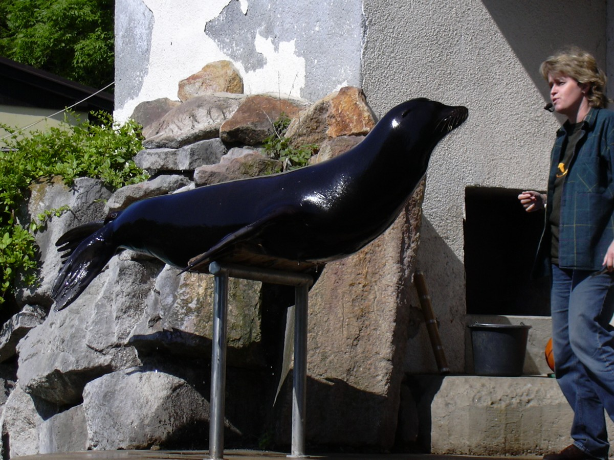 Teaching of California sea lions in Zoo Ústí nad Labem, Czechia